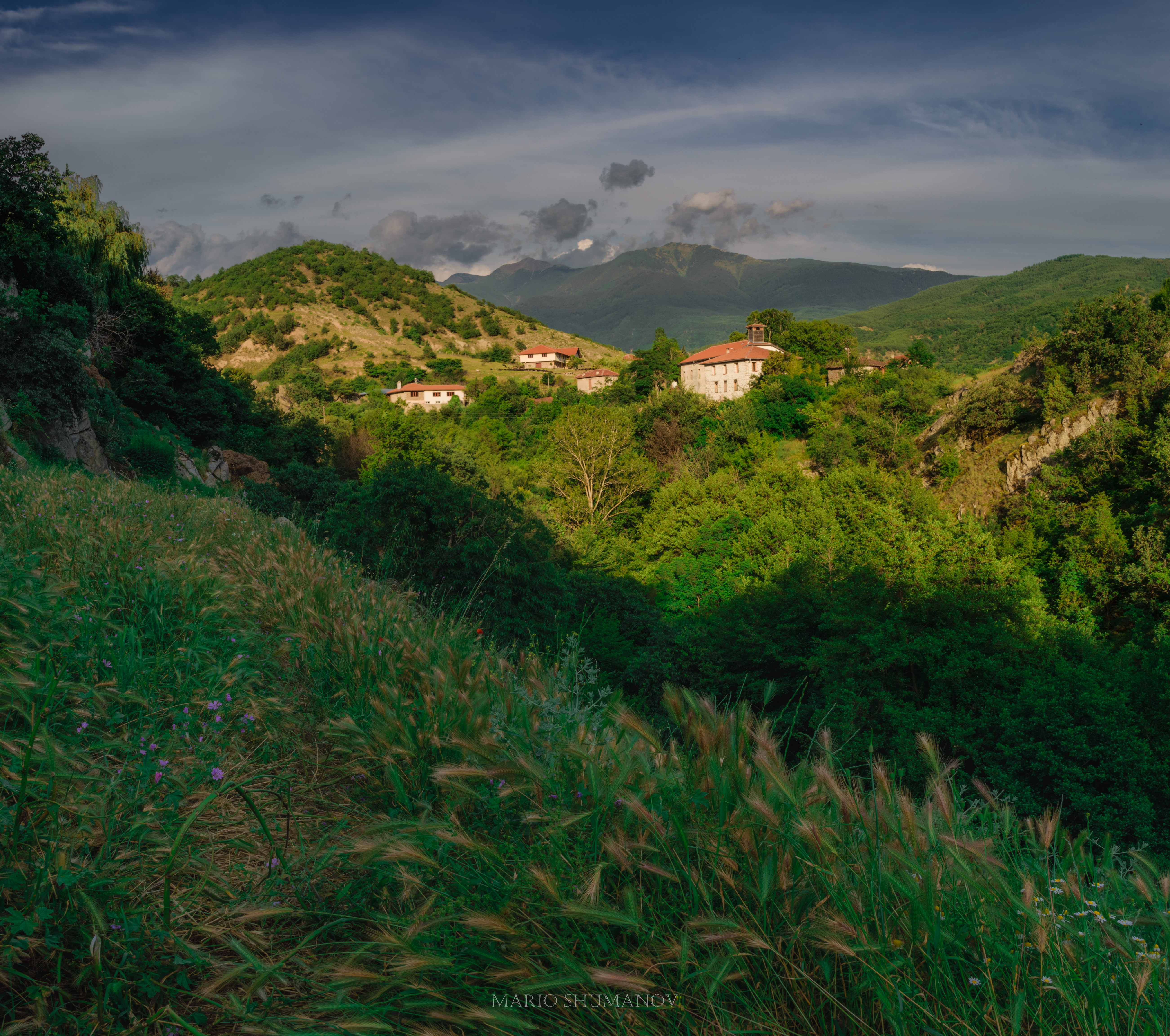 Vlahi village and Pirin National Park